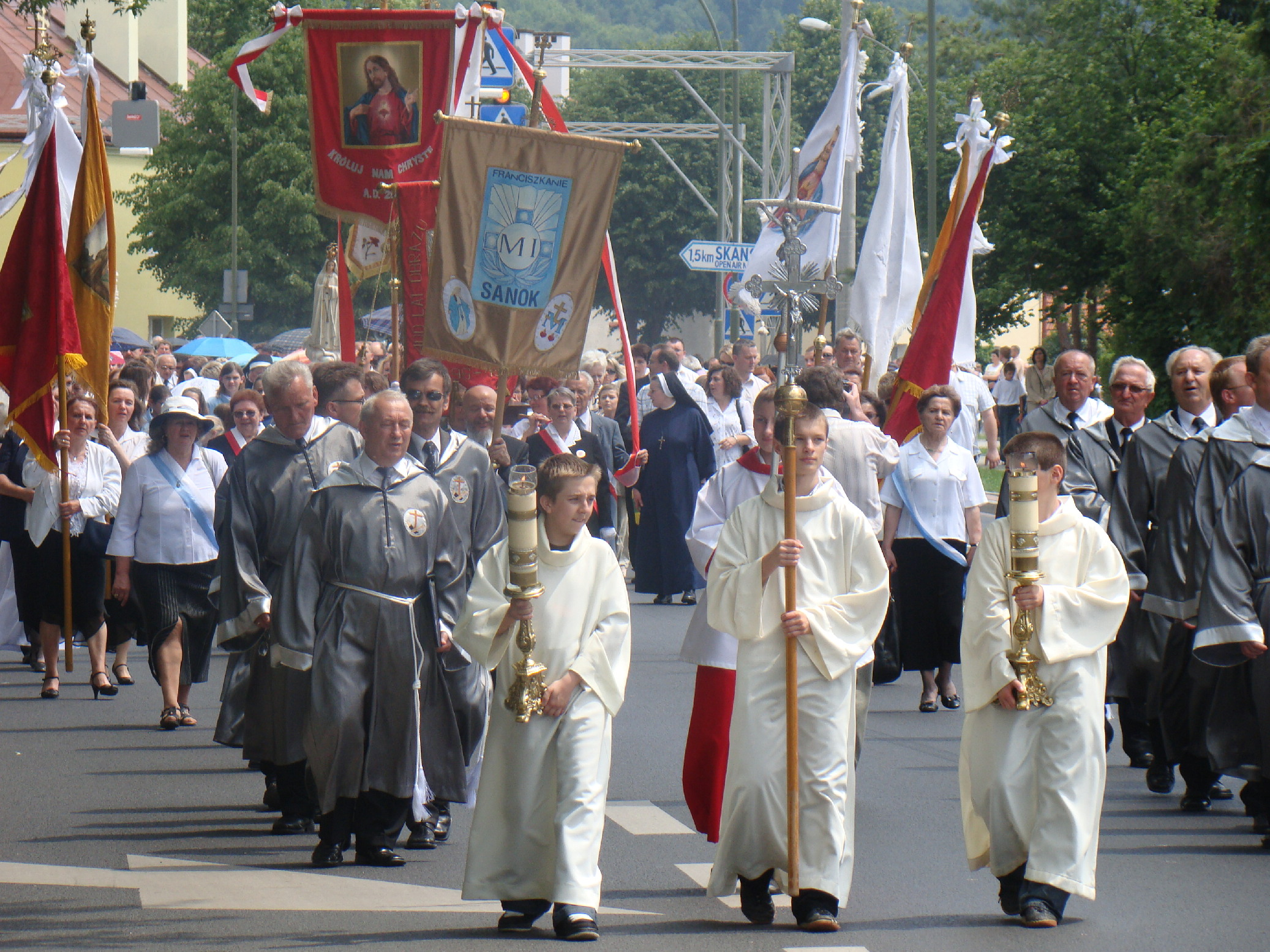 Corpus Christi Mass and Procession in Sanok, 11 06 2009